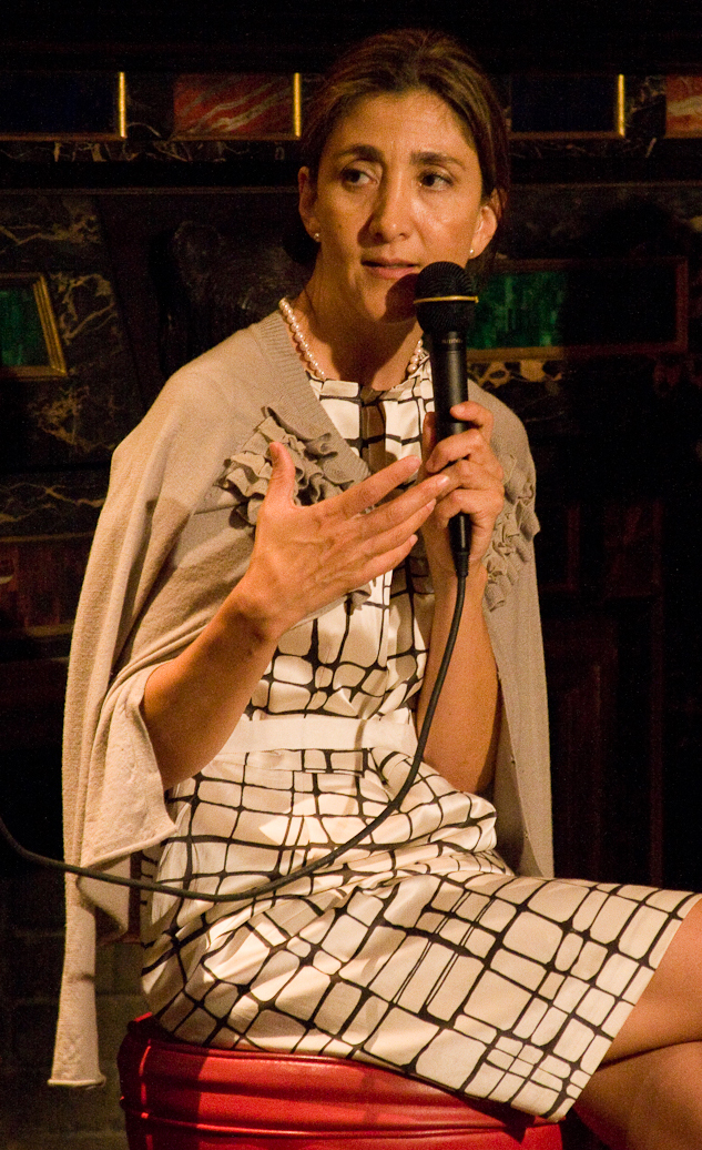 Íngrid Betancourt at a Hudson Union Society event in September 2010.